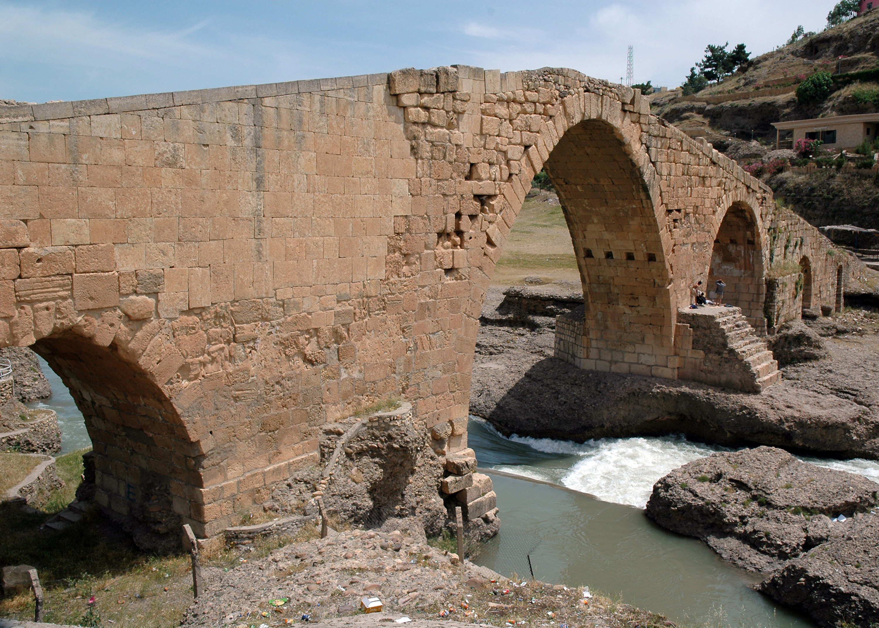 Dalal Bridge in Zakho, Iraq Kurdî: Pira Delal a Zaxoyê